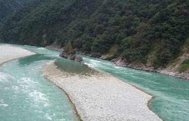 Holy Pilgrimage